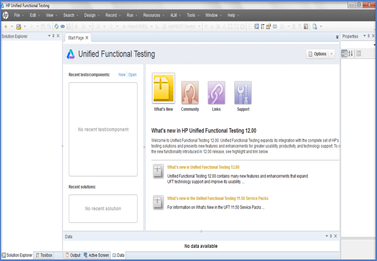 UFT Start page.